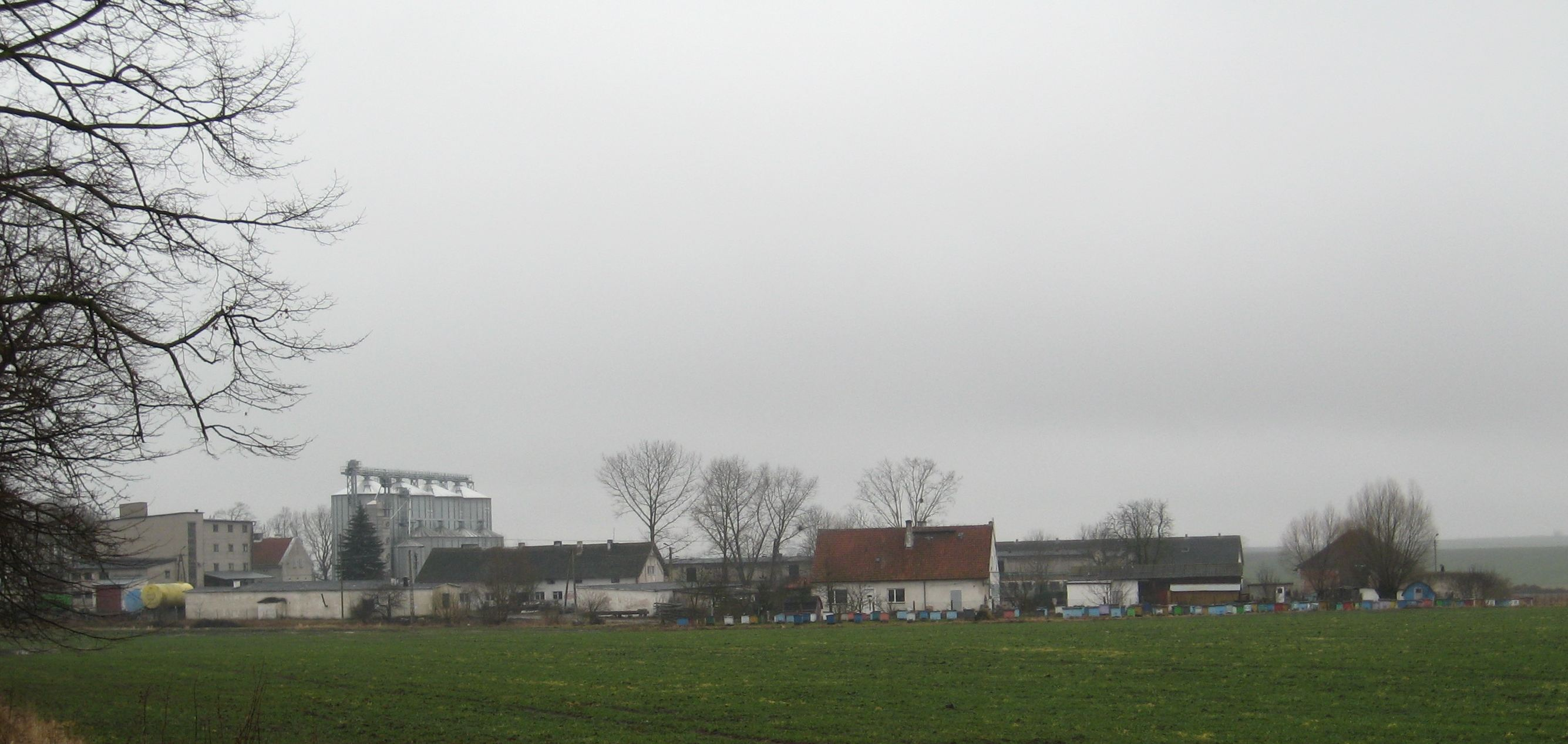 The village Podławki in Poland - OpenStreetMap (Info)